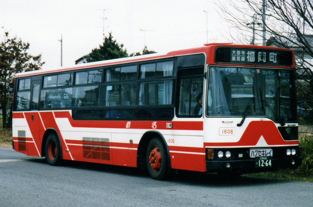 The Bus vehicle of Nagoya Railroad. 名古屋鉄道のバス車両